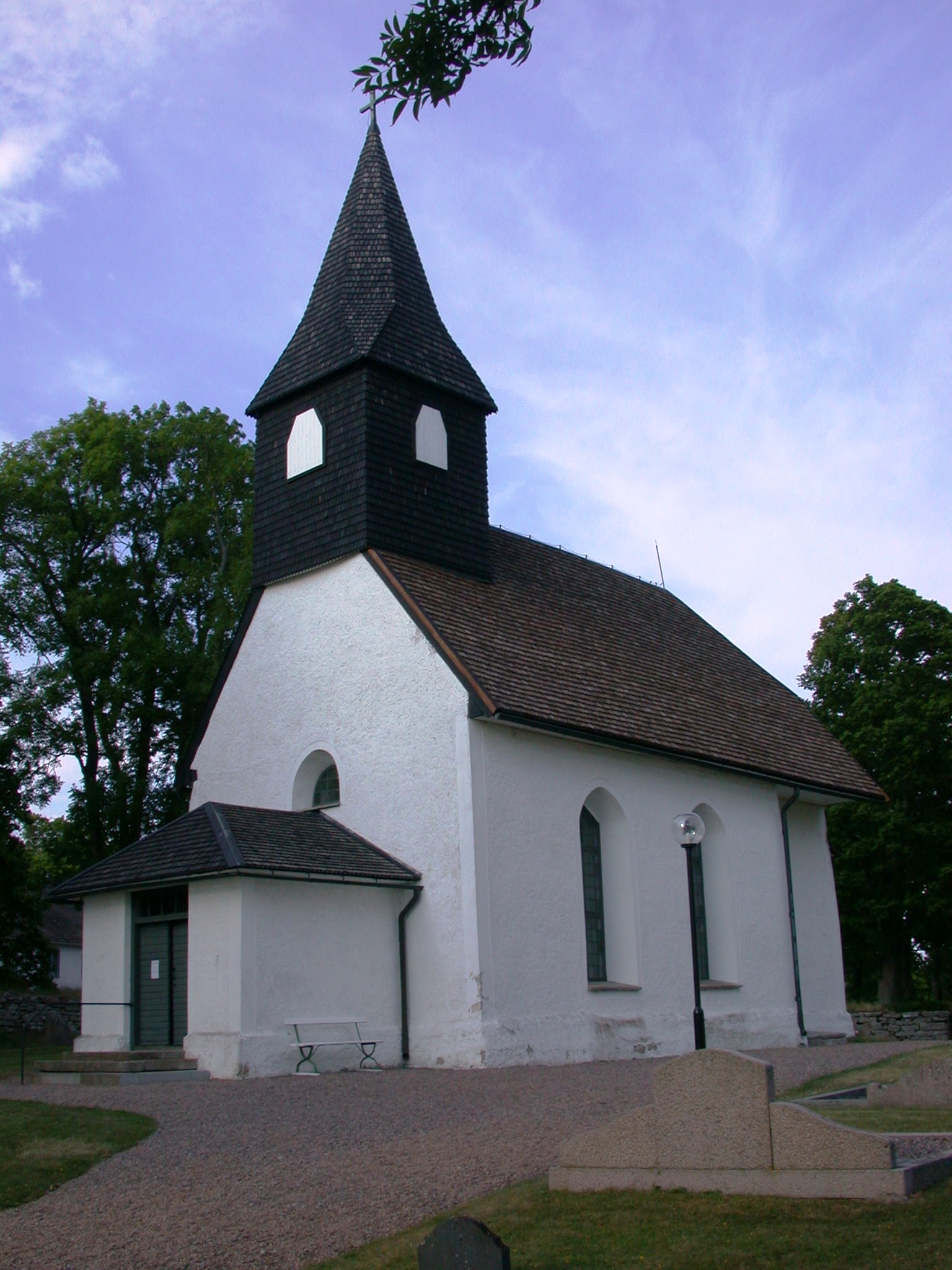 Nässja church, Vadstena, Sweden. Photo by Riggwelter, July 20, 2006.